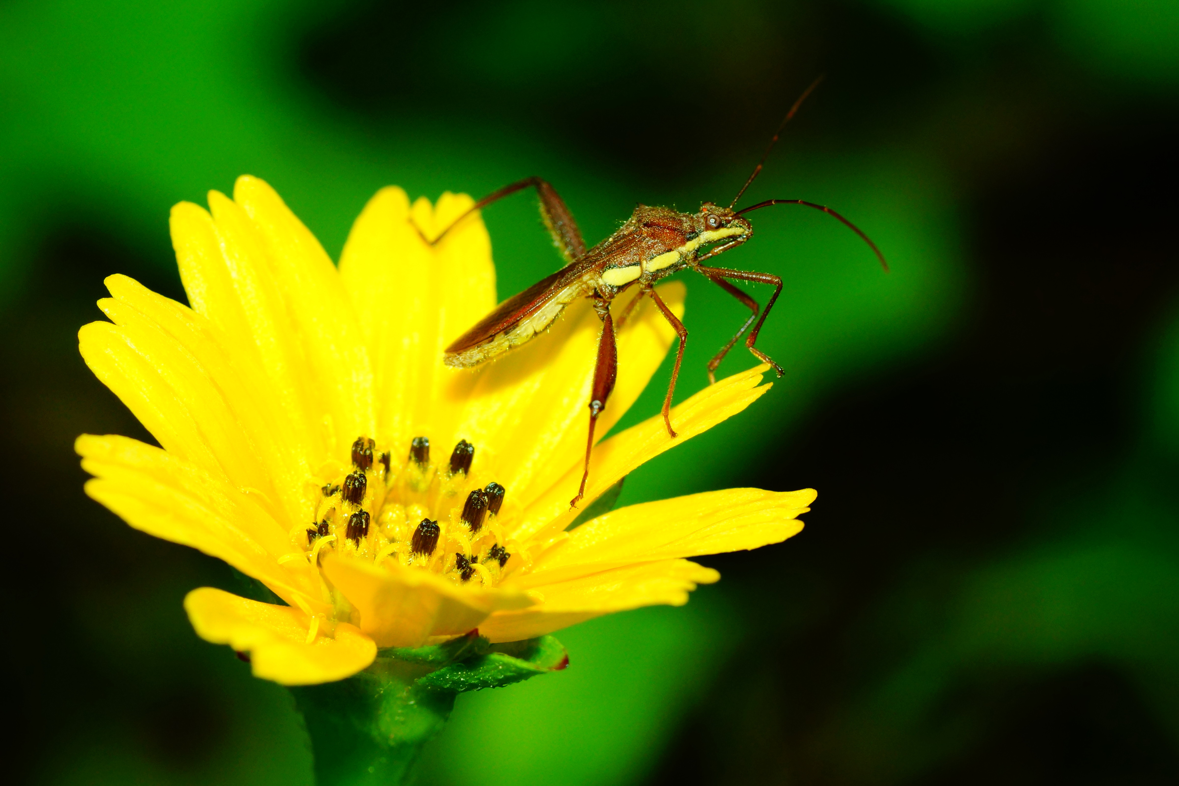 Riptortus linearis